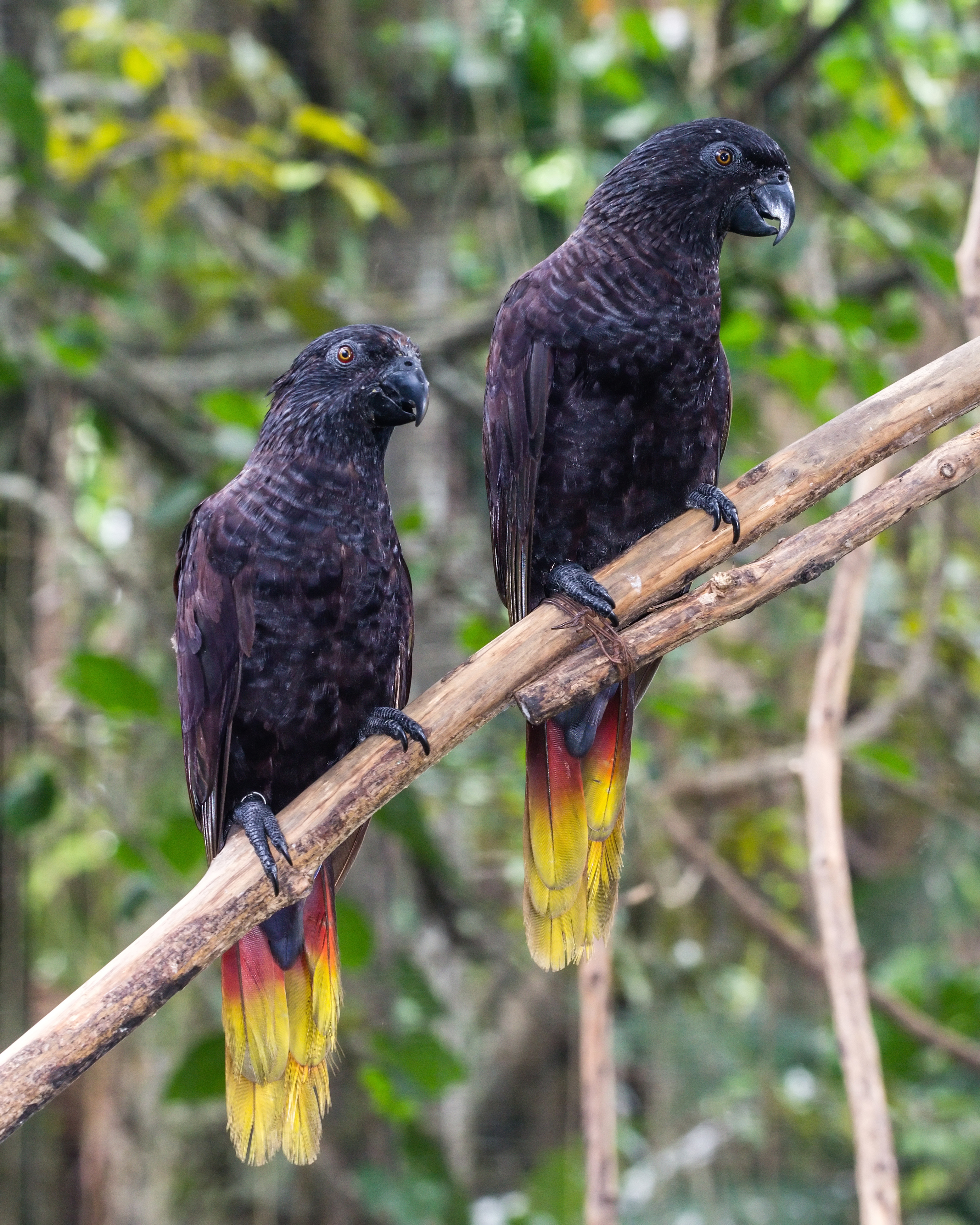 Black lory (Chalcopsitta atra), Gembira Loka Zoo, Yogyakarta 2015-03-15